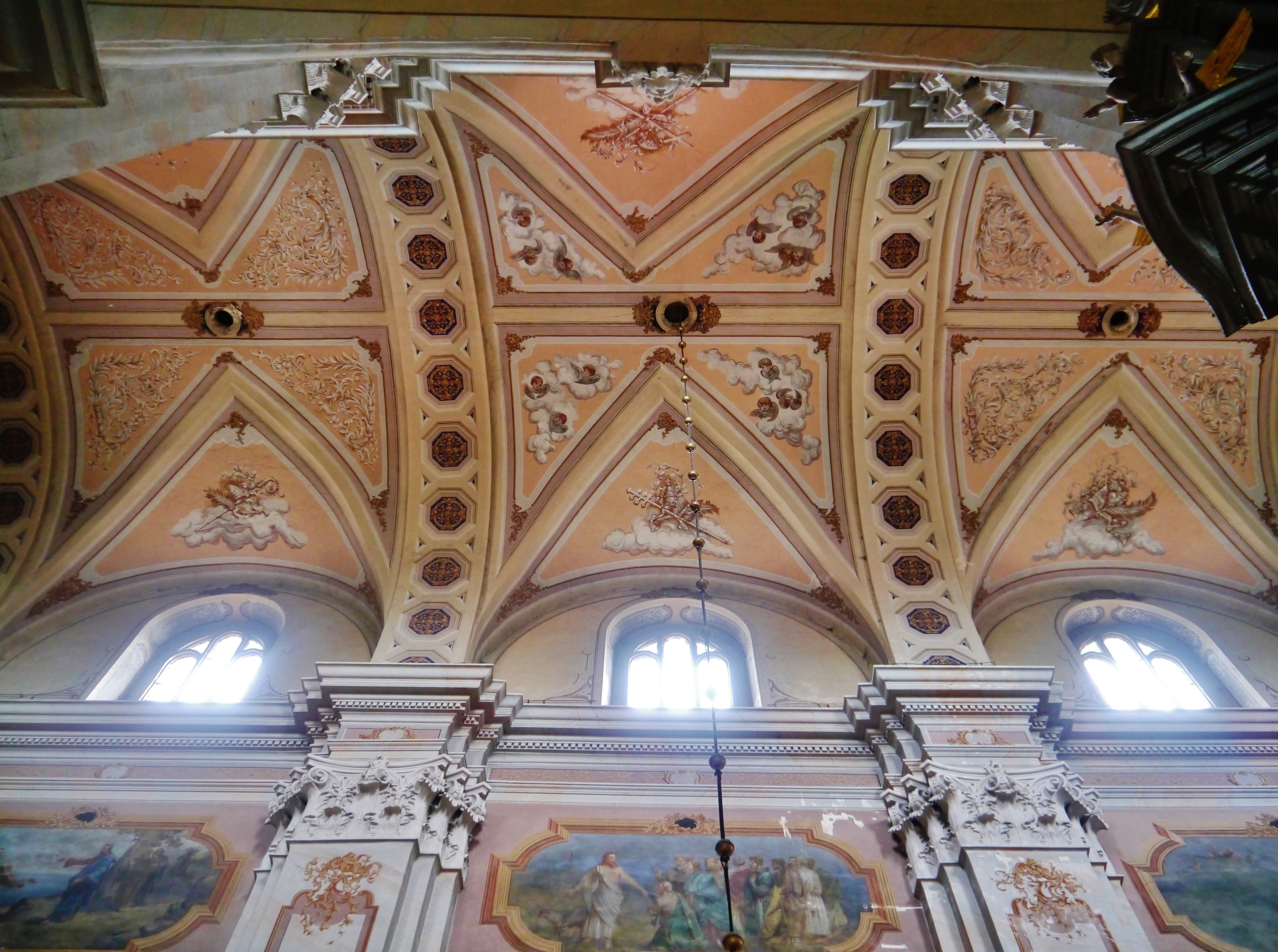 Vault of the Cathedral Sts. Peter & Paul, Kaunas, Lithuania